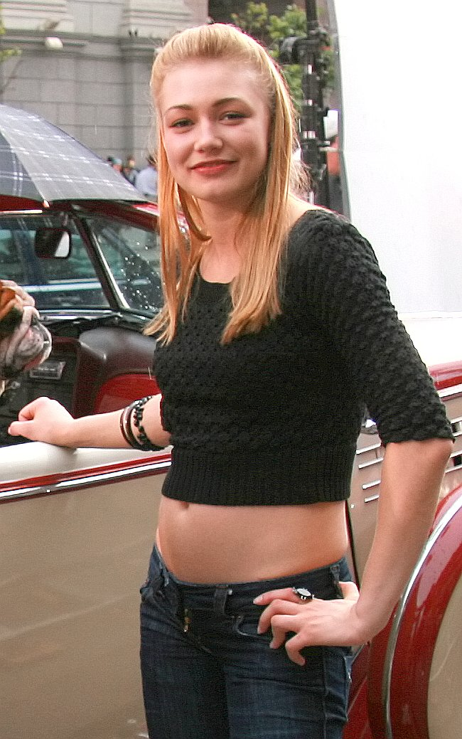 Oksana Akinshina (production of "Stilyagi")